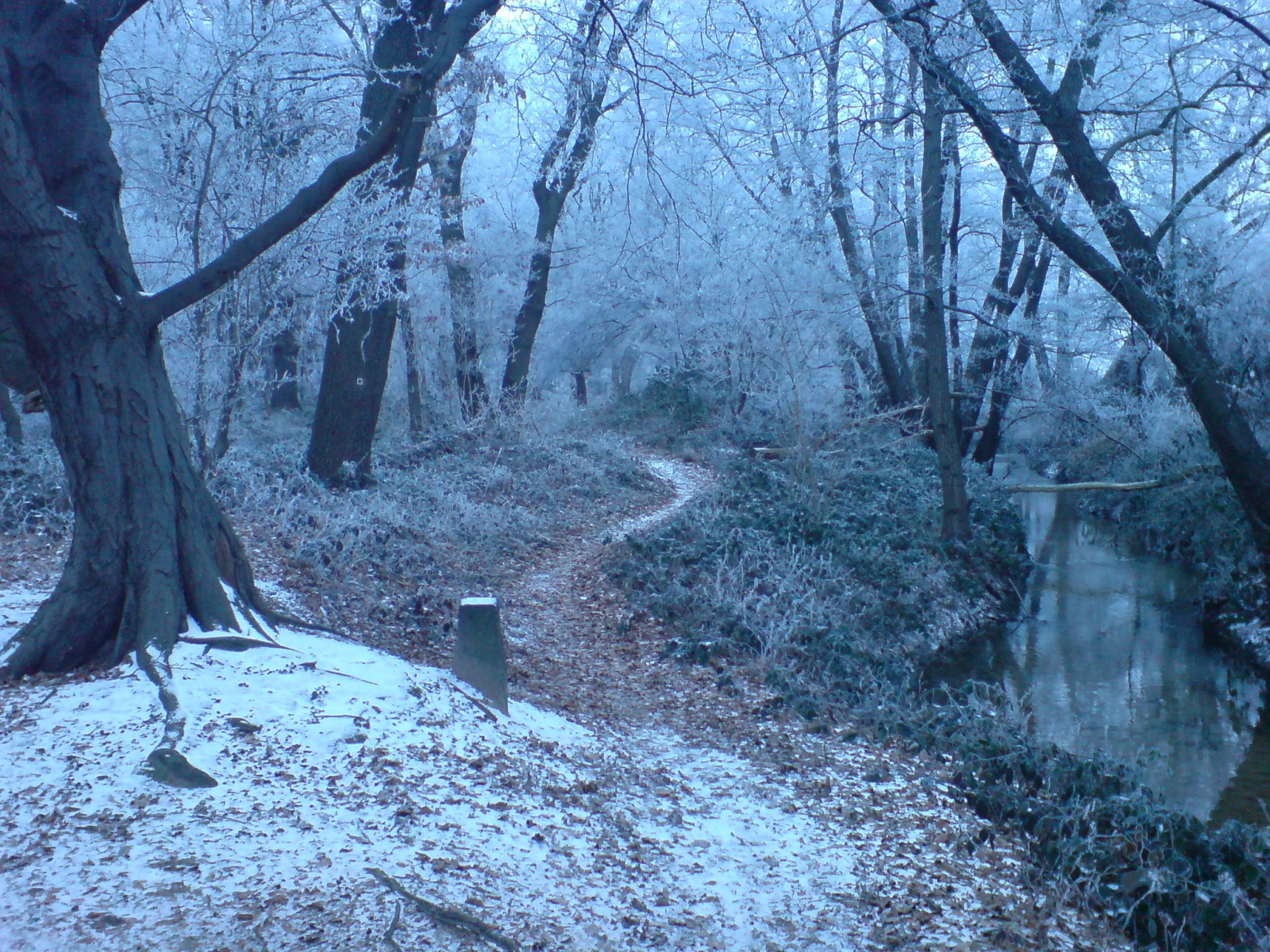 A forest winter scene near Erzhausen, Germany. Looking eastwards.